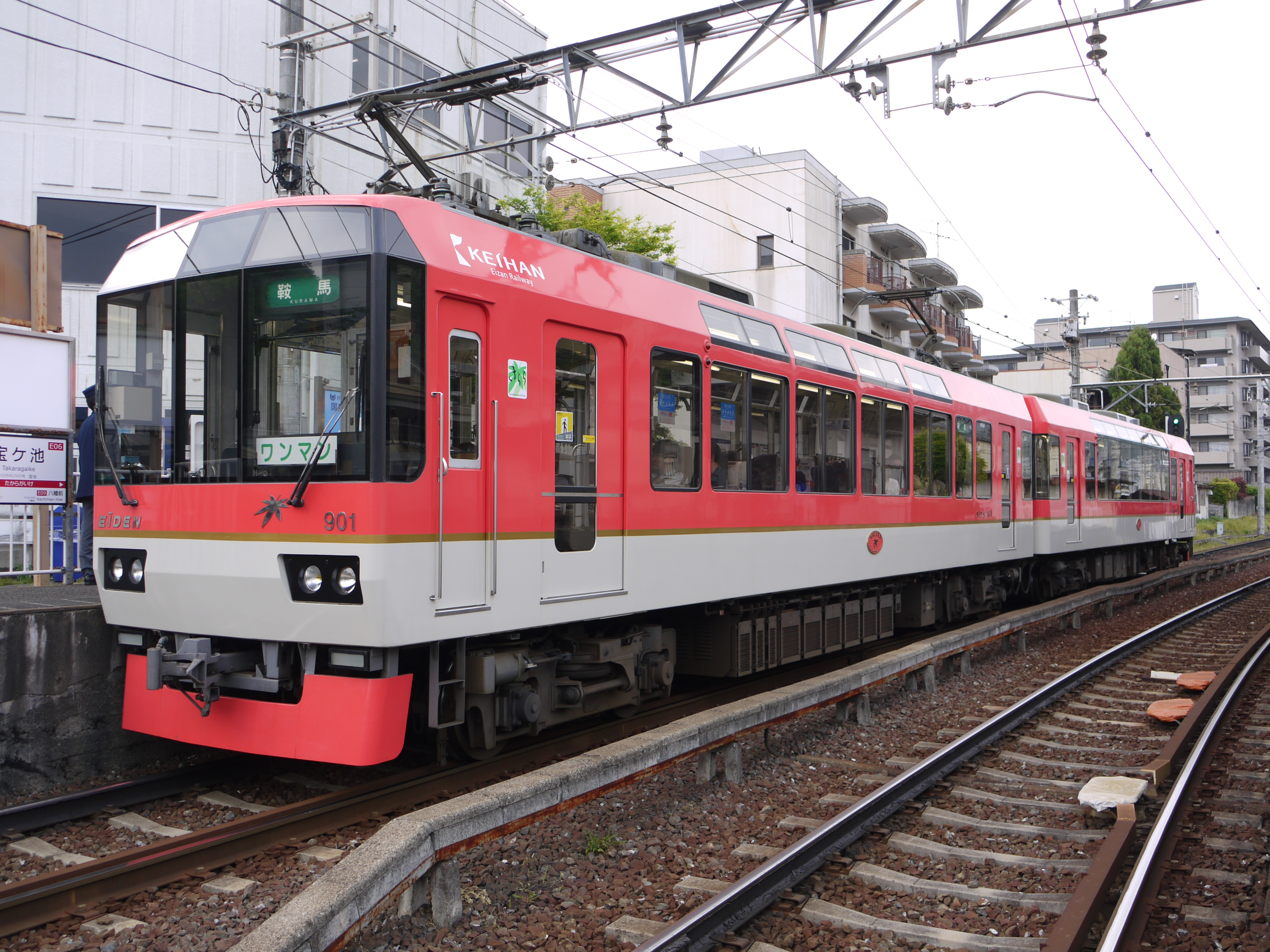 Eizan rail way Deo 901 at Takaragaike station